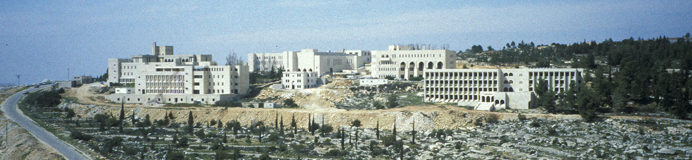 Birzeit University campus. Photo by Michael O'Neill, taken in 1997.